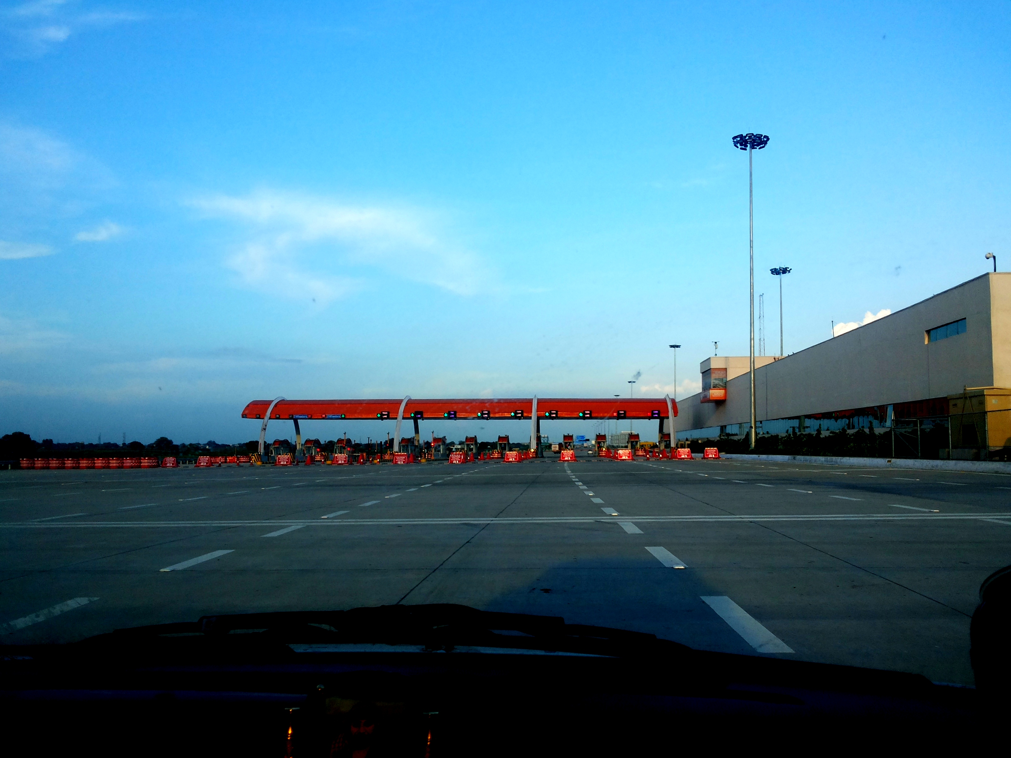 Yamuna Expressway is a toll expressway in Uttar Pradesh connecting Delhi to Agra. Toll Plaza